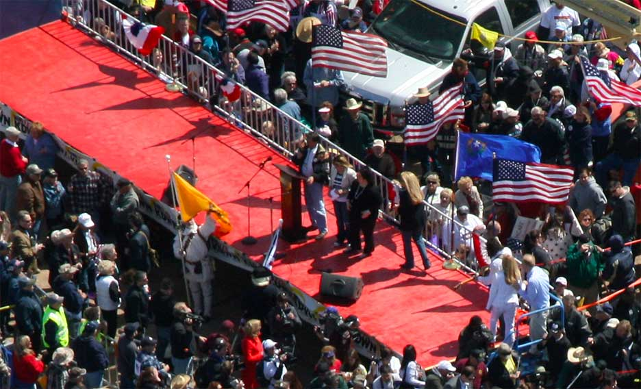 Stage of 2010 Tea Party rally against Senate majority leader Harry Reid.